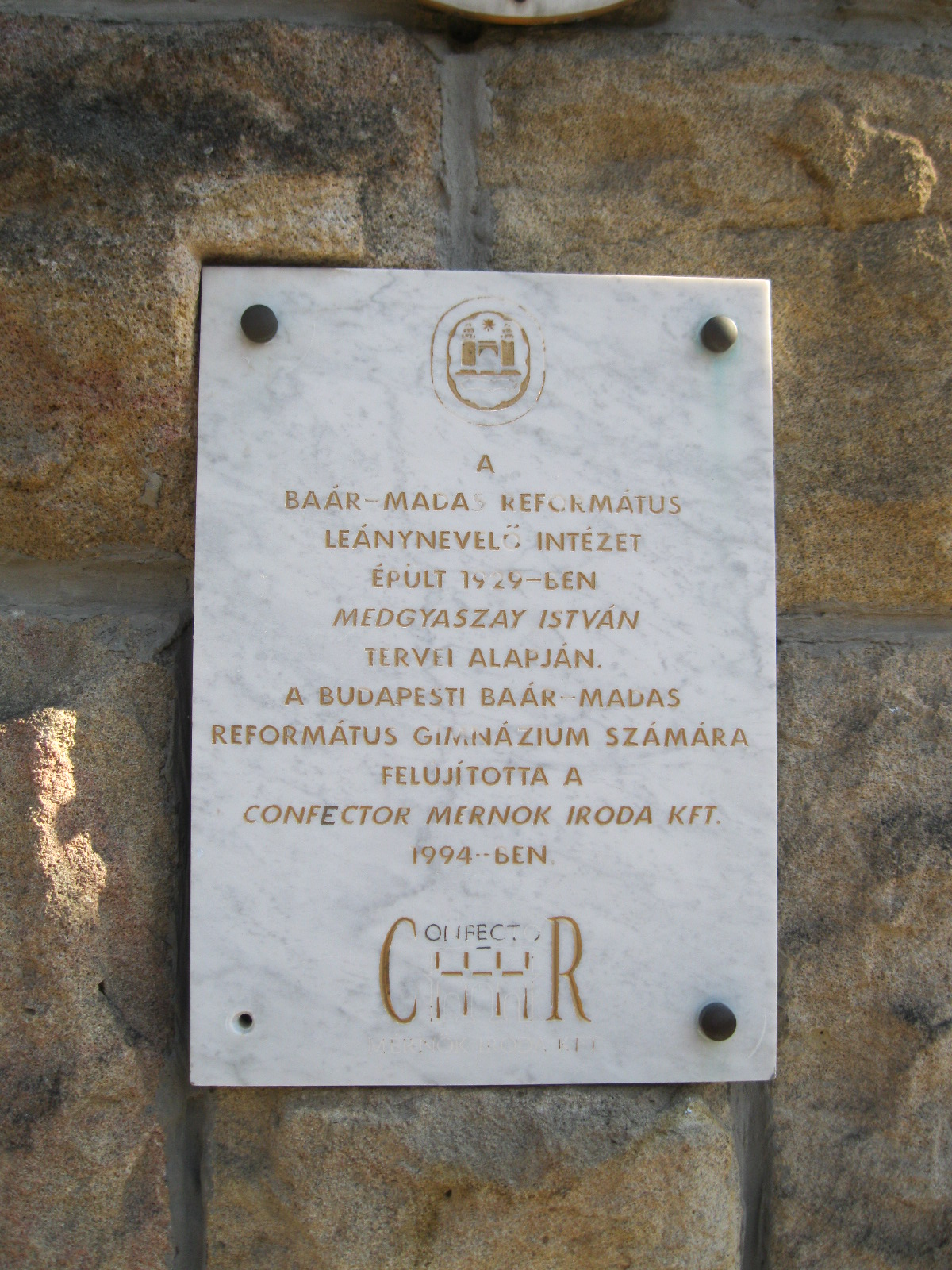 Baár-Madas School plaque. Budapest District II, Lorántffy Zsuzsanna Street No 1-5.